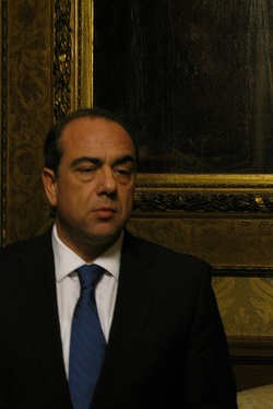 Foreign Secretaries David Miliband with Marcos Kyprianou